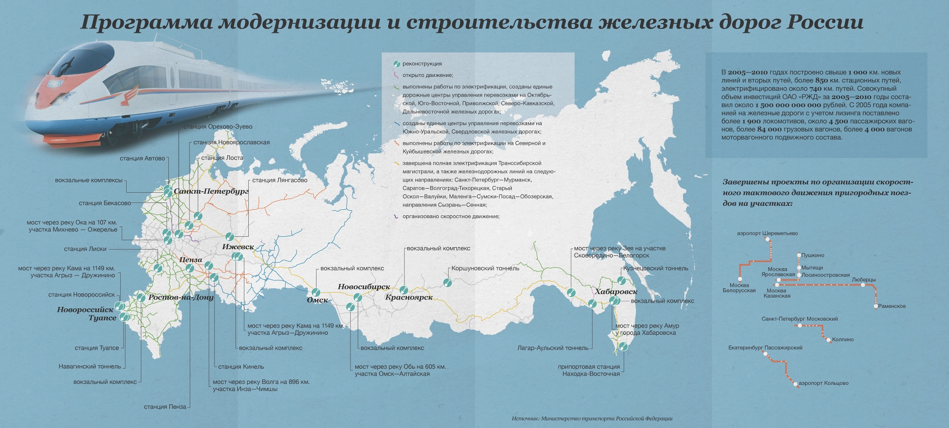 2005-2010 modernization program of Russian Railways. Text (machine translated): "In 2005–2010, over 1,000km were built, new lines and second paths, more than 850 km station roads, electrified about 740 km ways. The total investment of Russian Railways for 2005–2010 was about 1,500,000,000,000 rubles. Since 2005, the company has delivered more than 1,900 locomotives to the railways with regard to leasing. about 4,500 passenger cars, more than 84,000 freight cars, more than 4,000 cars wagon rolling stock."